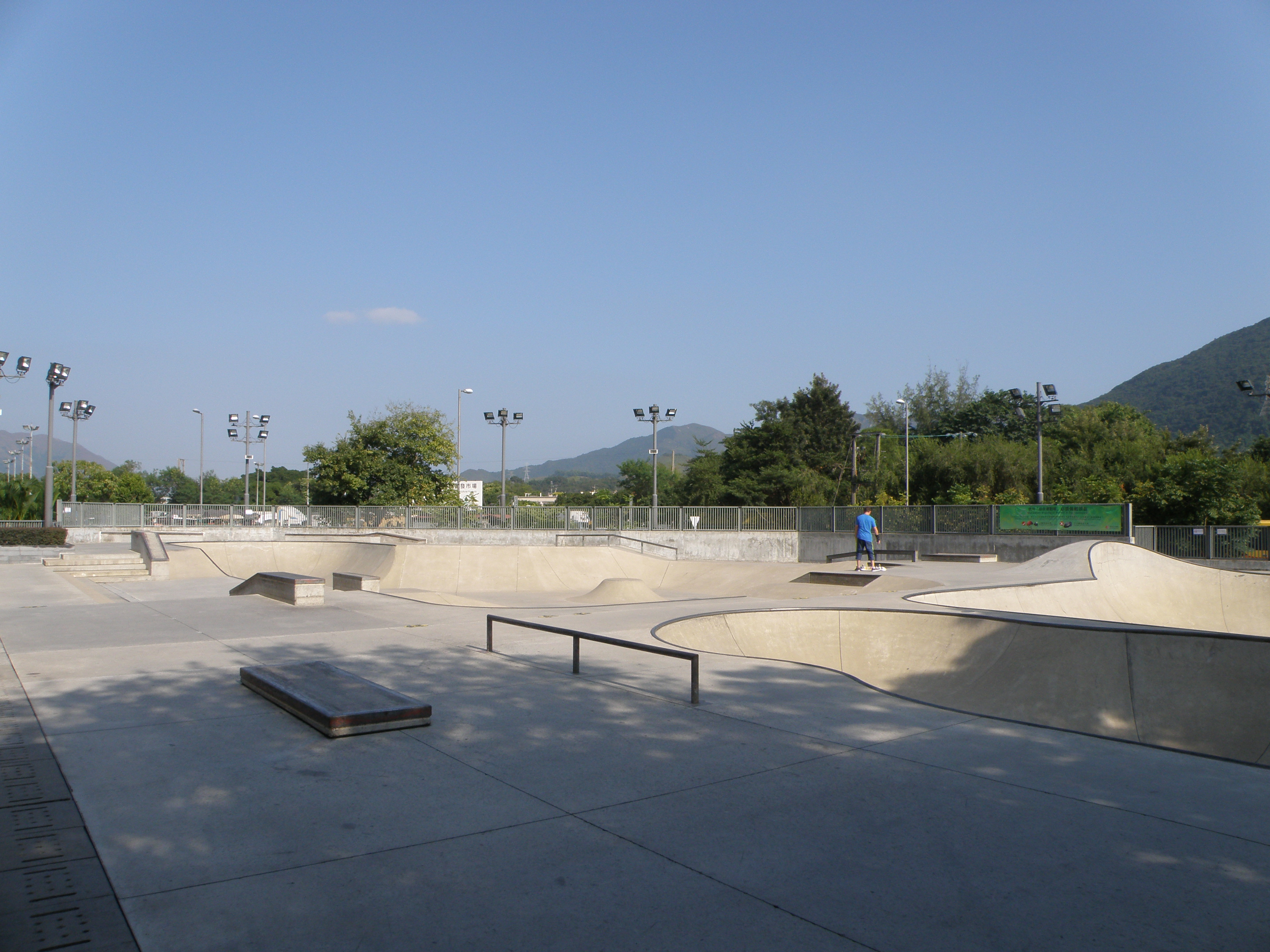 On Lok Mun Street Playground in Fanling, Hong Kong.